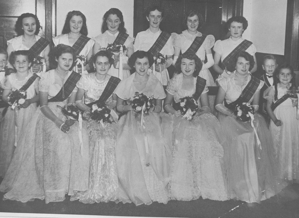 Debutantes holding bouquets at a social dance, 1952